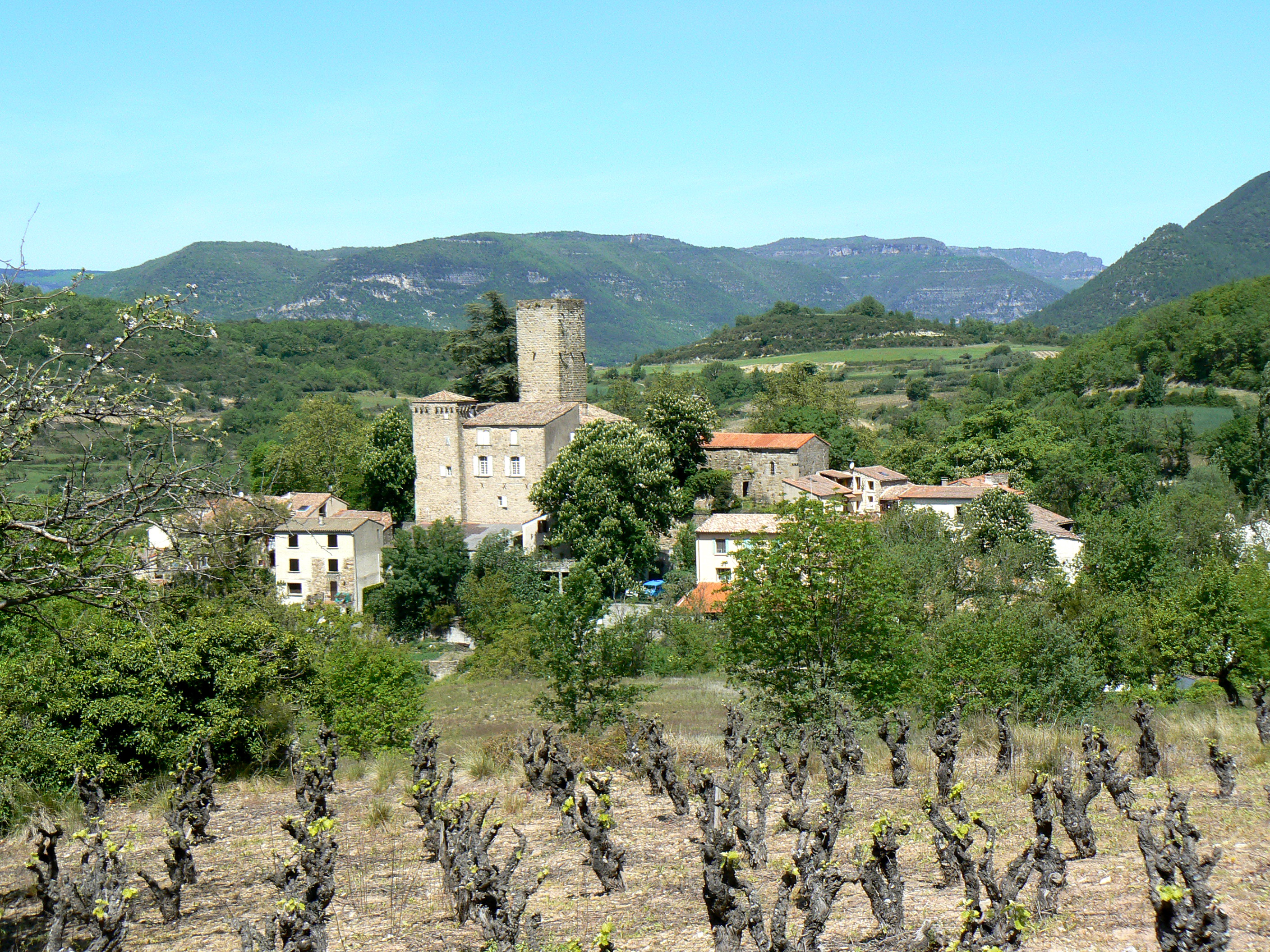 Panorama of Fozières, Causse de Larzac (France)